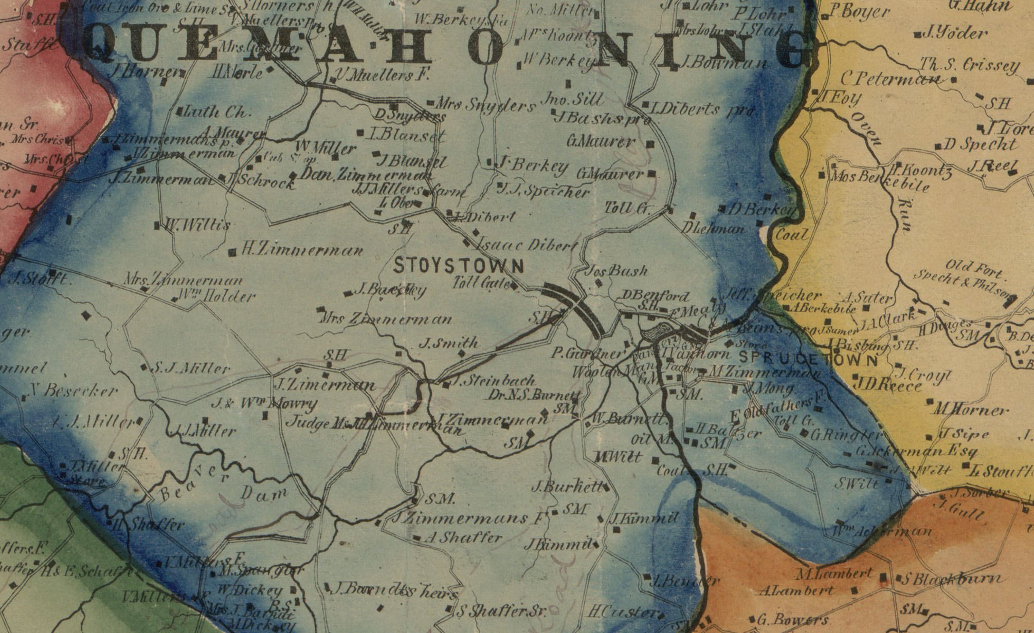 Map of Stoystown, Somerset County, Pennsylvania, taken from 1860 Edward L. Walker map of Somerset County available at the Library of Congress website